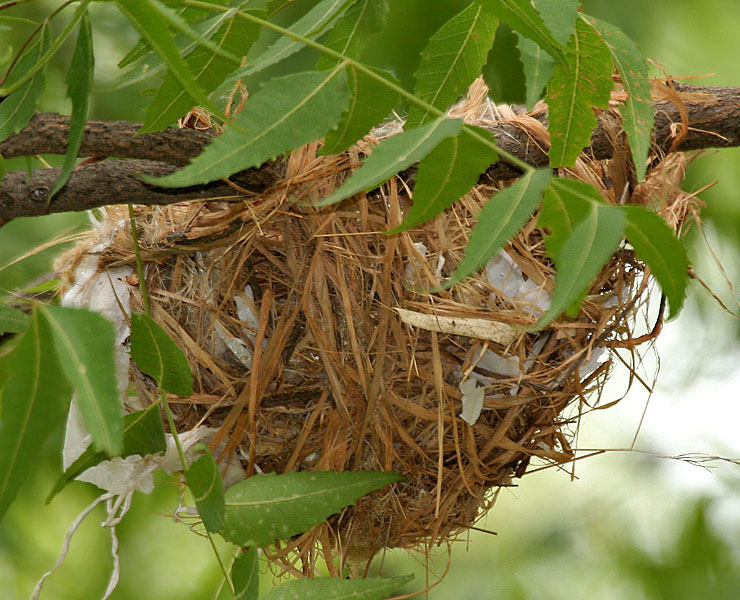 Oriolus kundoo - Hindi: Peelak, Kash: Poshnul, Pun: Pilak, Ben: Sona bau, Ass: Patmadoi, Guj: Soneri peelak, Peelak, Mar: Peelak, Haldya, Kanchan, Amrapakshi, Ori: Haladi basanta, Ta: Manga pala, Te: Vanga pandu, Mal: Manjakili, Kan: Suvarna pakshi - in Hyderabad, India.